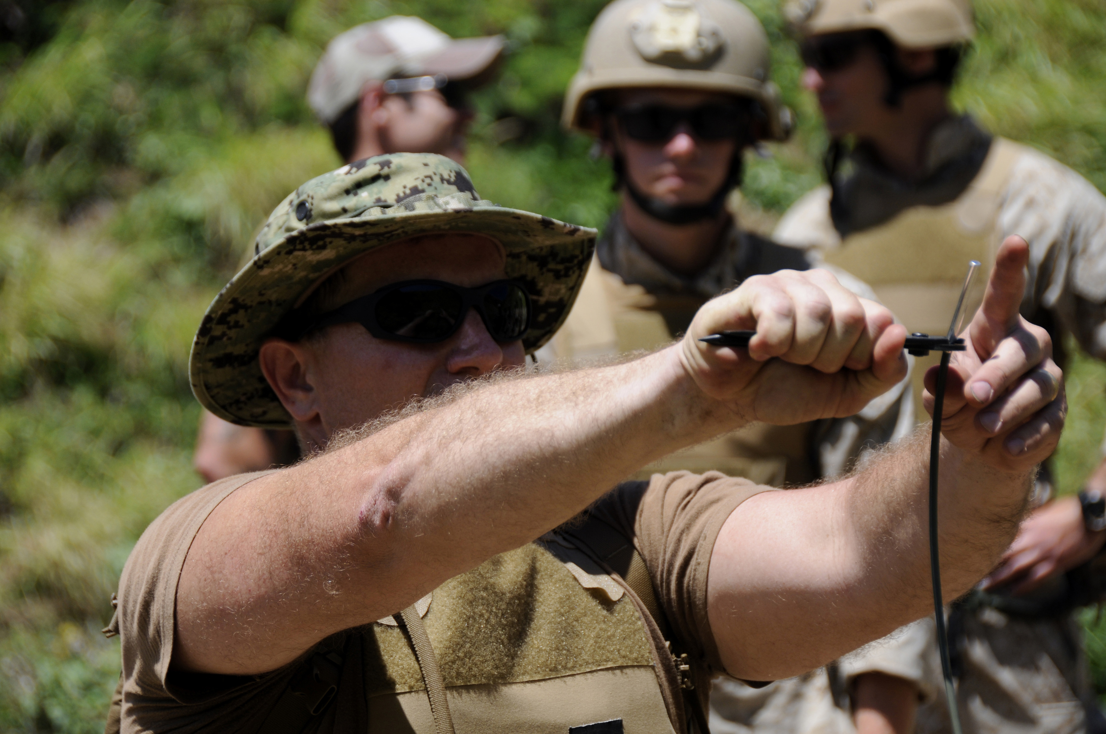 Explosive Ordnance Disposal 1st Class Joseph Tumminello of Oak Ridge, Tenn., a member of Naval Surface Warfare Center, Indian Head Explosive Ordnance Disposal Technology Division demonstrates for 4th Force Reconnaissance Company Marines how to crimp a blasting cap onto a shot of time fuse during demolition training at the Kaneohe Bay Range Training Facility Aug. 20, 2014. Tumminello, an explosive ordnance disposal and demolition expert, helped augment the 4th Force Reconnaissance Company’s two-week annual training period as part of a Navy training team comprised of two other explosive ordnance disposal members and an ordnance clearance diver. During their annual training period in Hawaii, more than 130 4th Force Reconnaissance Company Marines conducted exercises including live fire and demolition, small boat operations and scout swimming, and infiltration and ambush. The annual training period culminated in two days of full mission profiles that combined all the training elements into day and night operations for each platoon. (U.S. Navy photo by Chief Mass Communication Specialist Patrick Dille, Navy Reserve Navy Public Affairs Support Element-West/RELEASED)